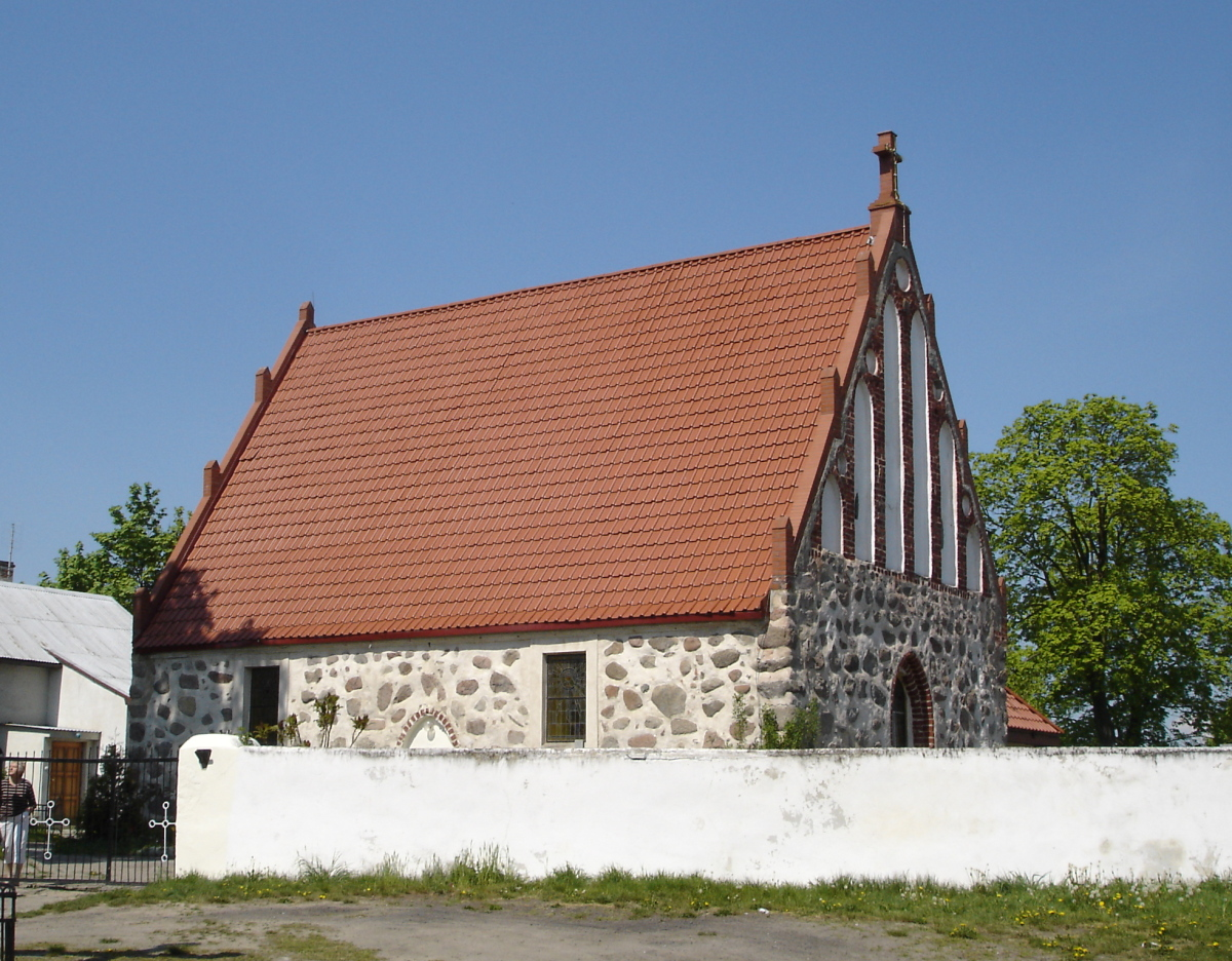 Saint Joseph church in Strzebielewo (Stargard County), Poland